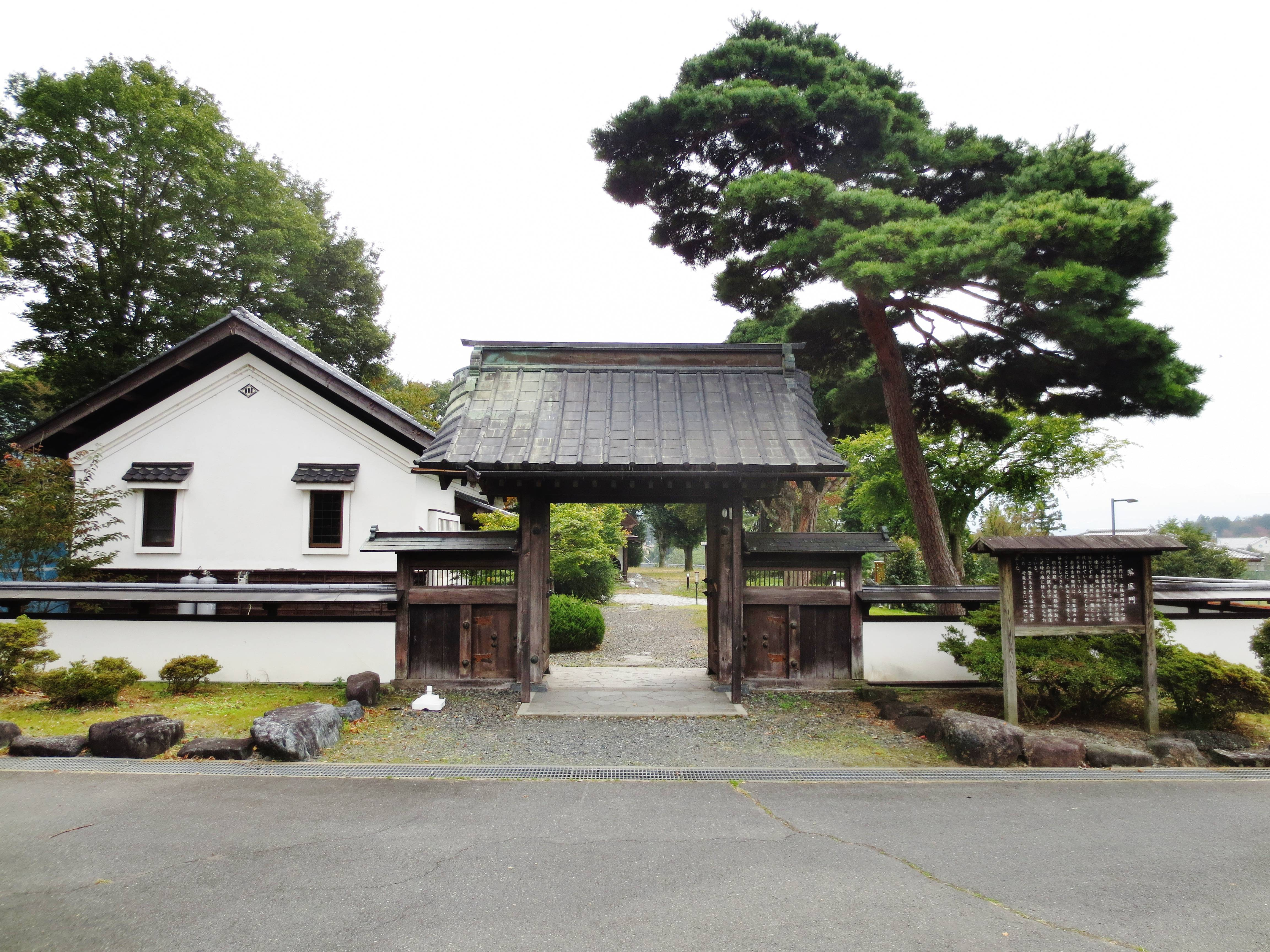 Numata Castle Yakuimon (Kawaba).